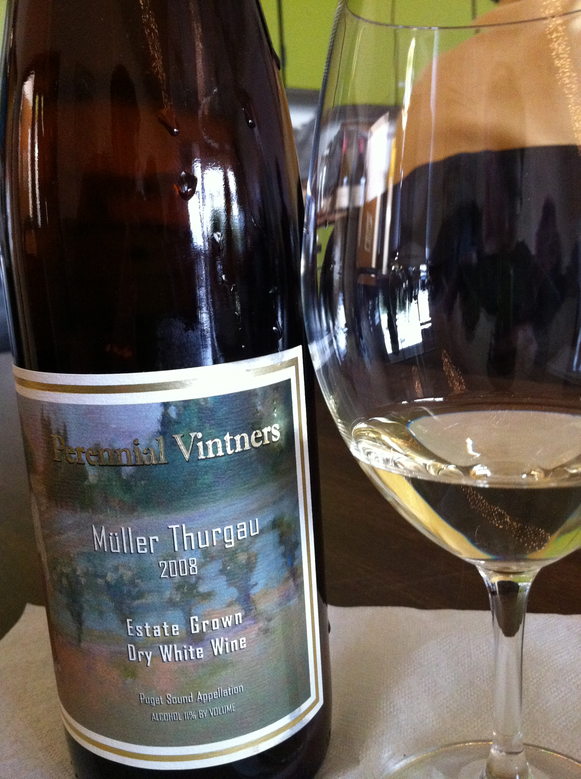 Washington wine made in the Puget sound region from the Muller Thurgau grape